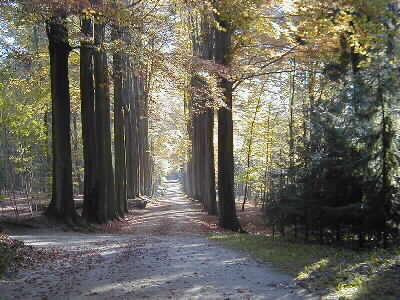 A path in the Zoniënwoud.